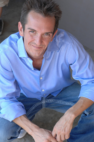 (Photo of Sean Huze by Cathryn Farnsworth/SeanHuze.com) (creative commons)